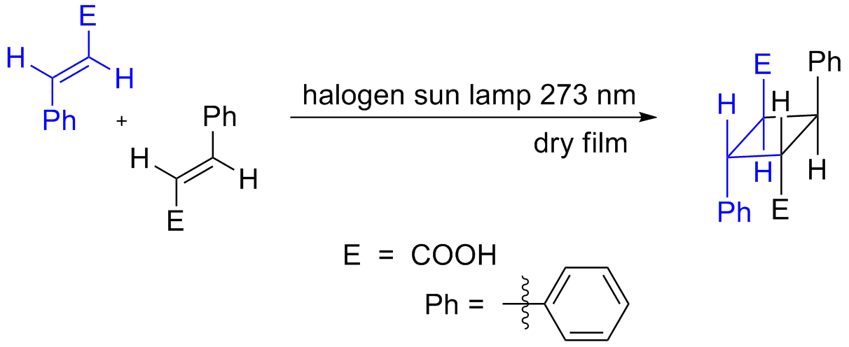 redrawn from [1]